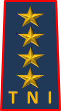 Admiral rank insignia that used on daily uniforms of Indonesian Navy (holder of command)